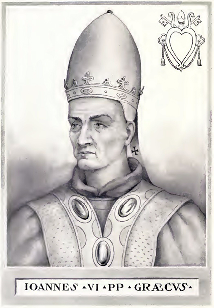 This illustration is from The Lives and Times of the Popes by Chevalier Artaud de Montor, New York: The Catholic Publication Society of America, 1911. It was originally published in 1842.